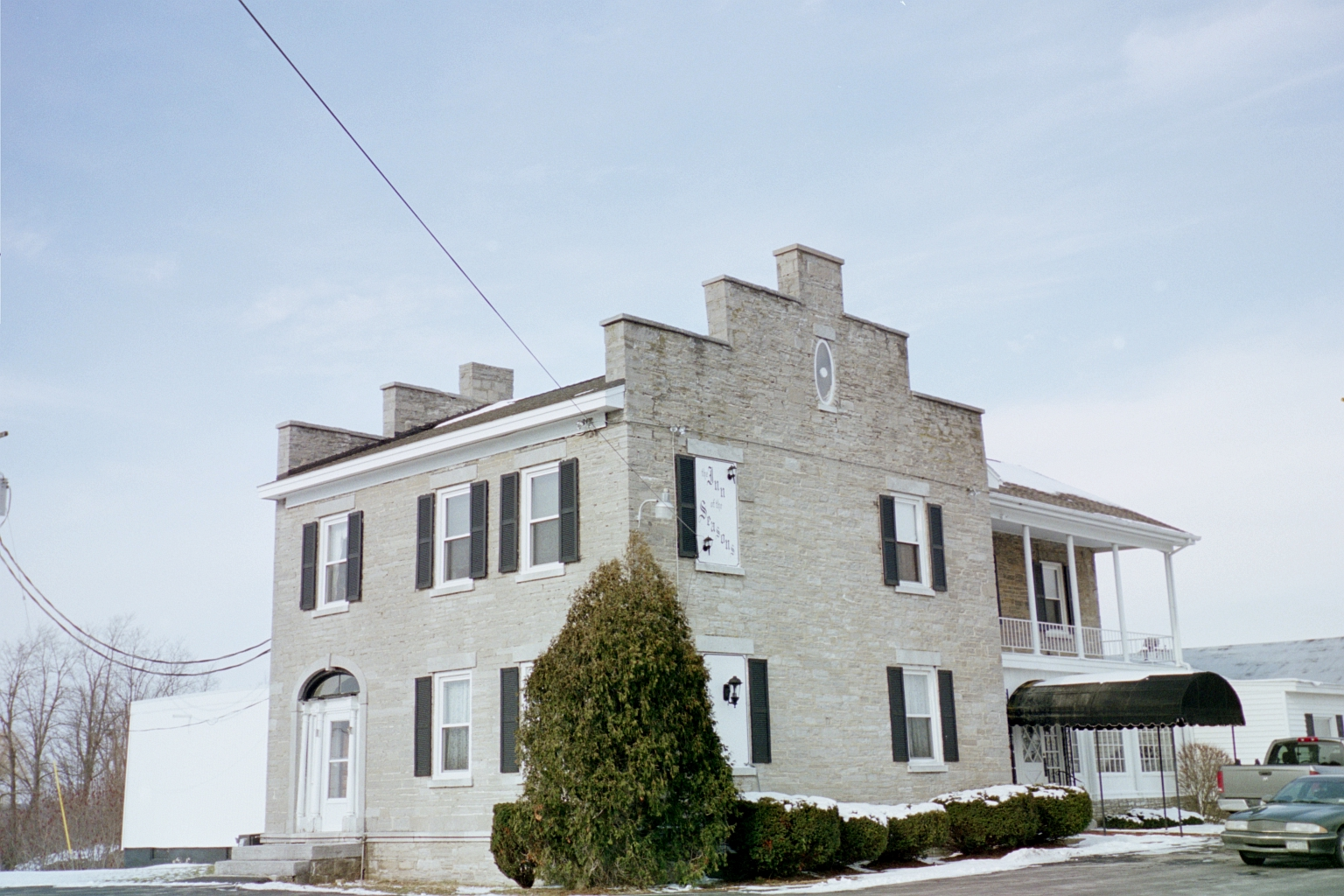 Side and front of General Hutchinson House, Onondaga, NY